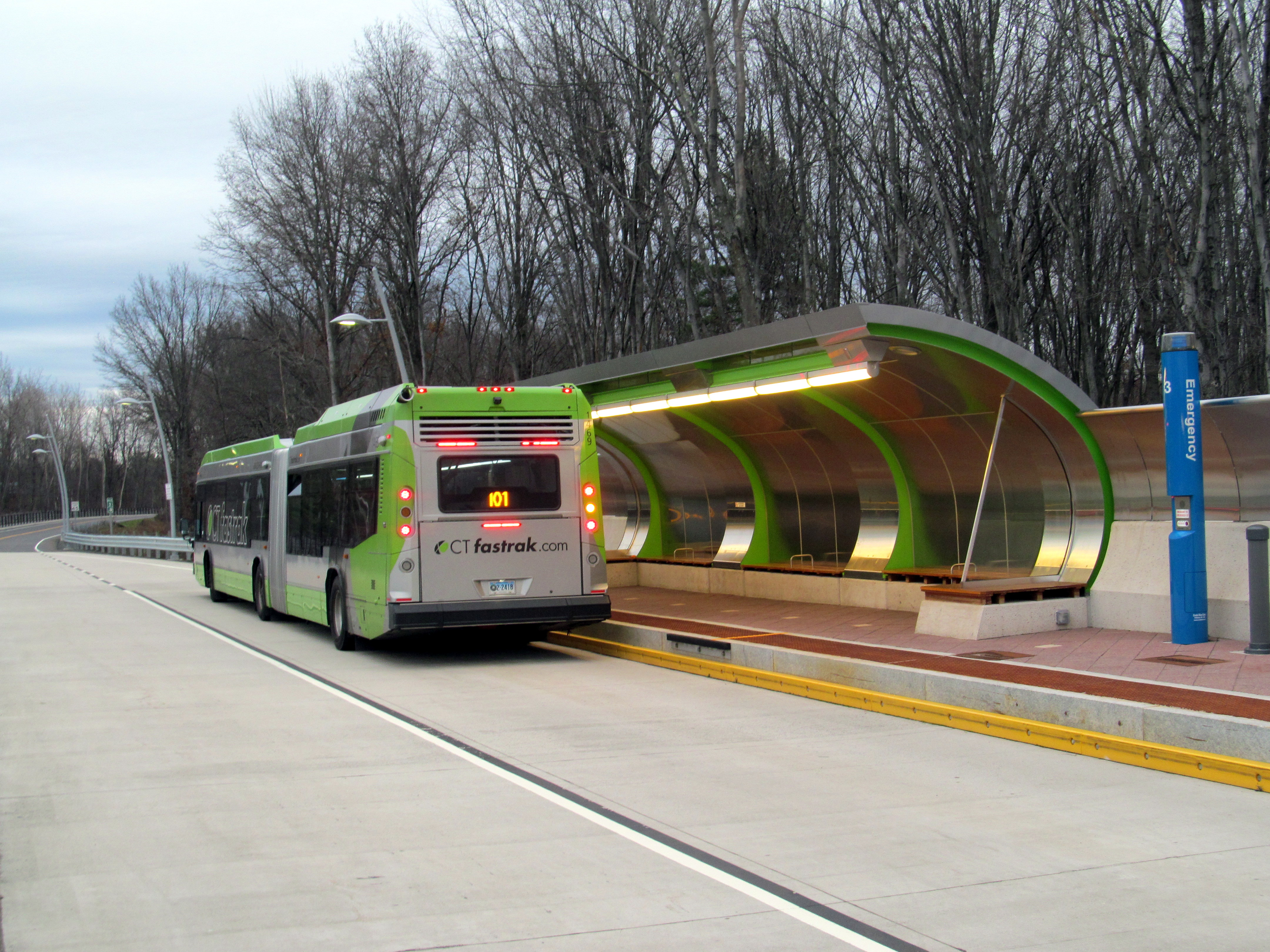 Northbound route 101 bus at Cedar Street CTfastrak station in December 2015